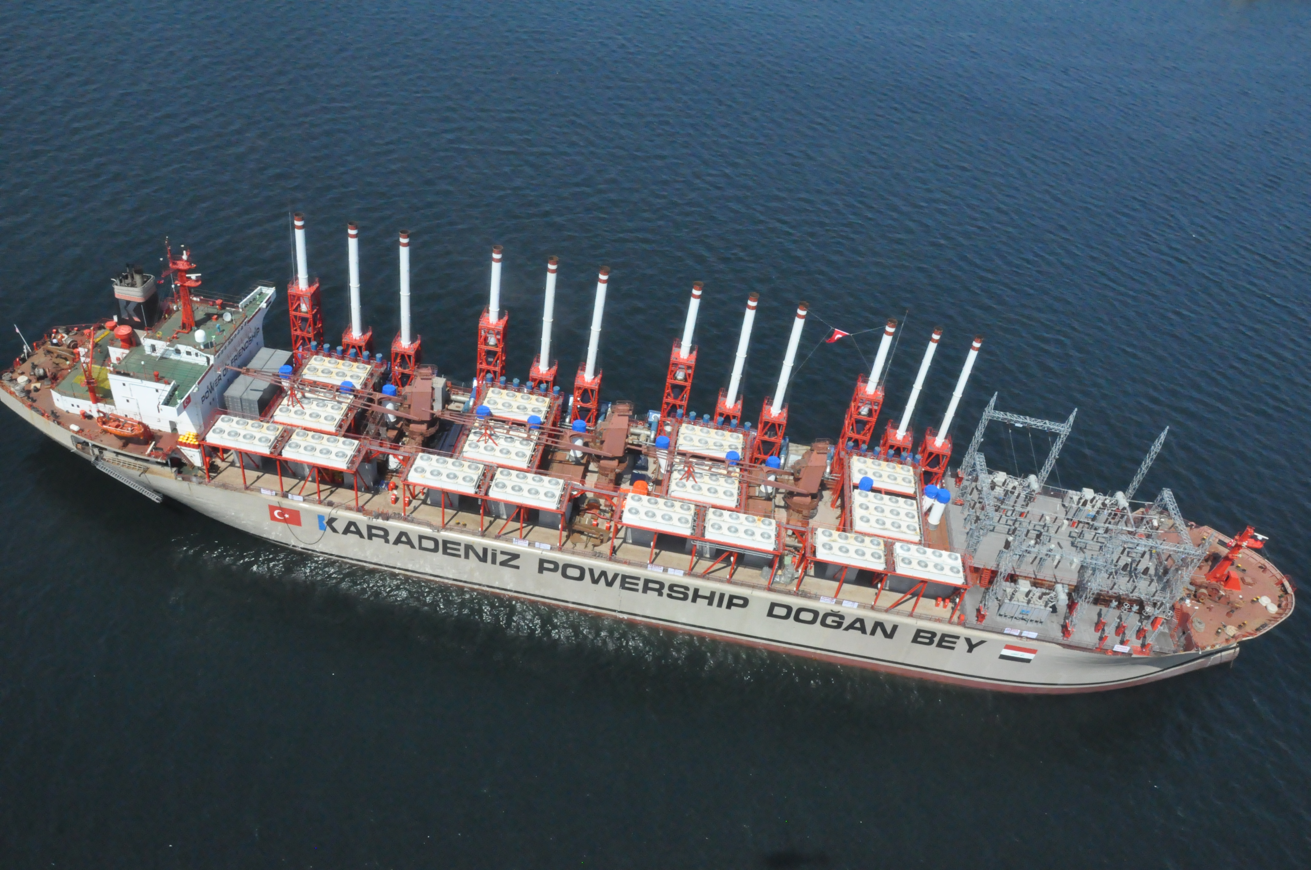 Karadeniz Powership Dogan Bey